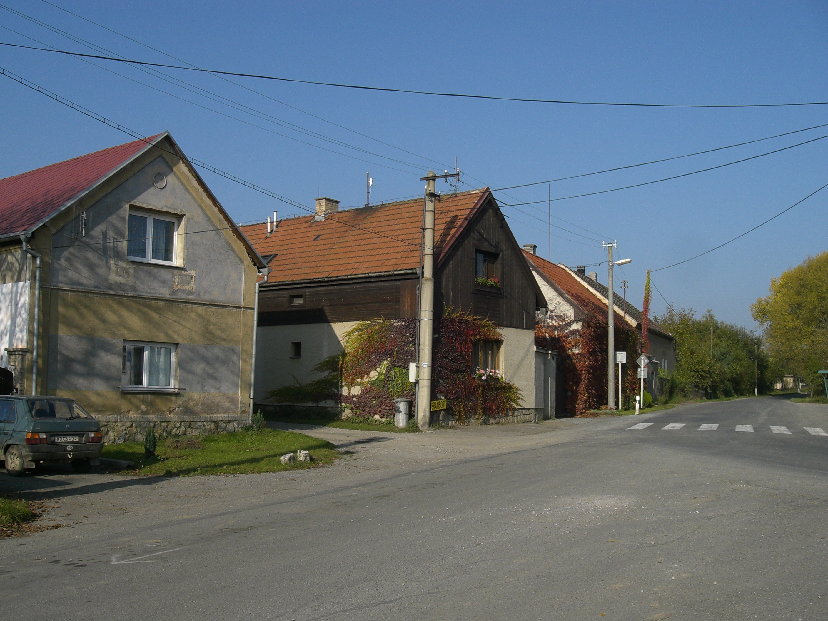 Roblín village in district Praha-Západ, Czech Republic.